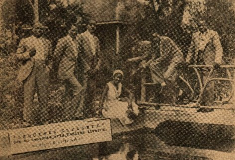 Cuban singer Paulina Álvarez with her band Orquesta Elegante in 1931.